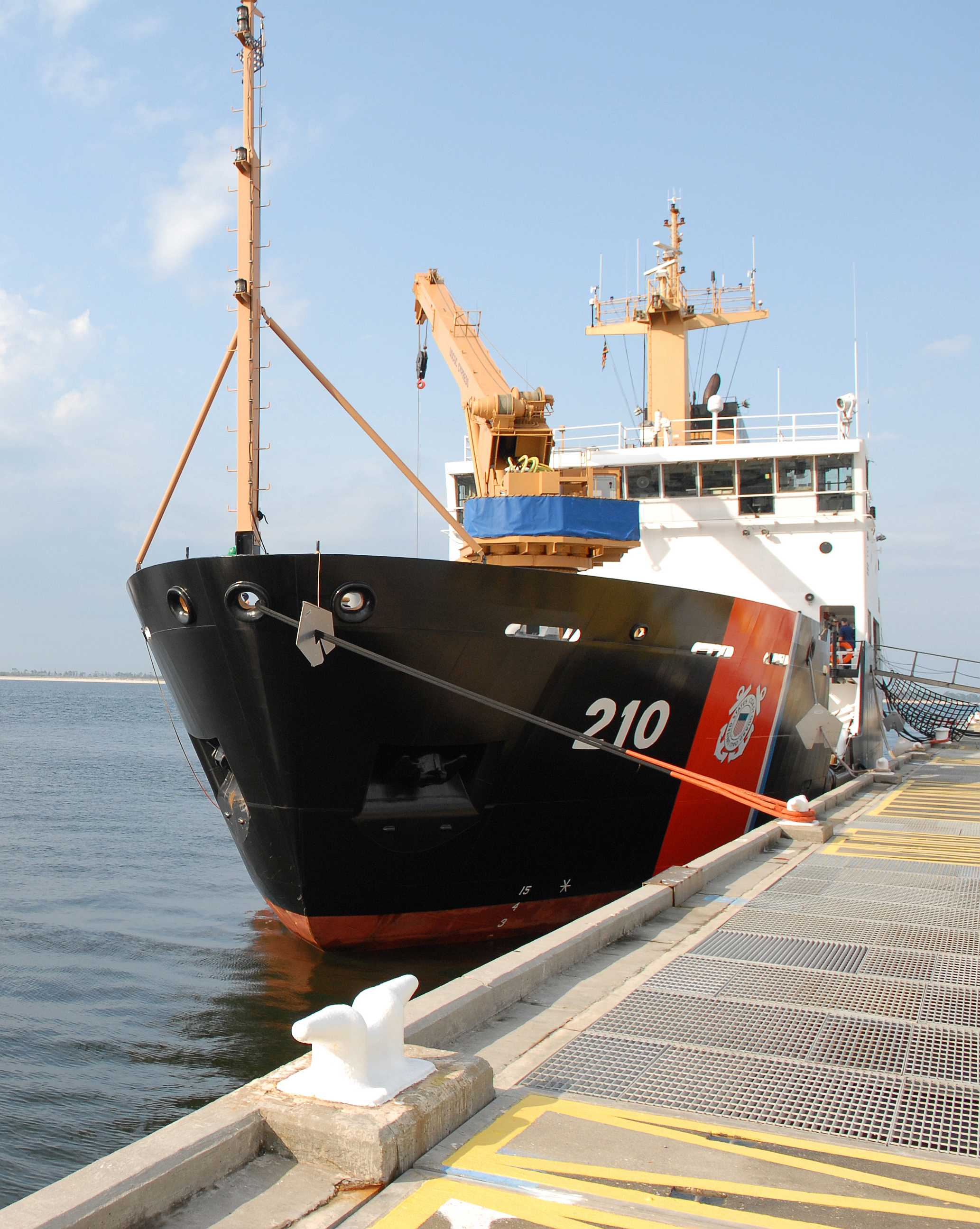 USCGC Cypress (WLB 210) stands-by to deploy from Naval Air Station Pensacola.